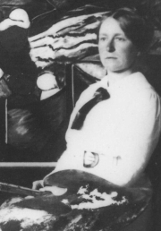 Dutch painter Jacoba van Heemskerck (1876-1923)